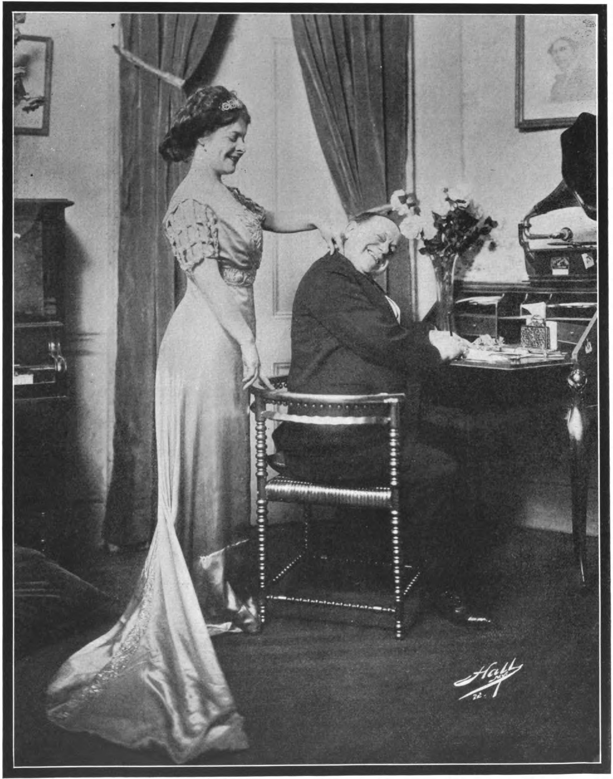 Mabel Barrison as Paulette Divine and Harry Conor as Lewellyn in The Blue Mouse at Maxine Elliott's Theatre 1908–1909